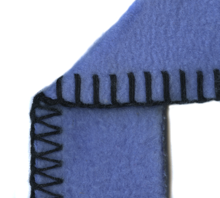 merrow, merrow sewing machine company, this image is available for public use